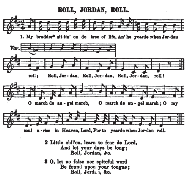 Lyrics and music for "Roll Jordan Roll"